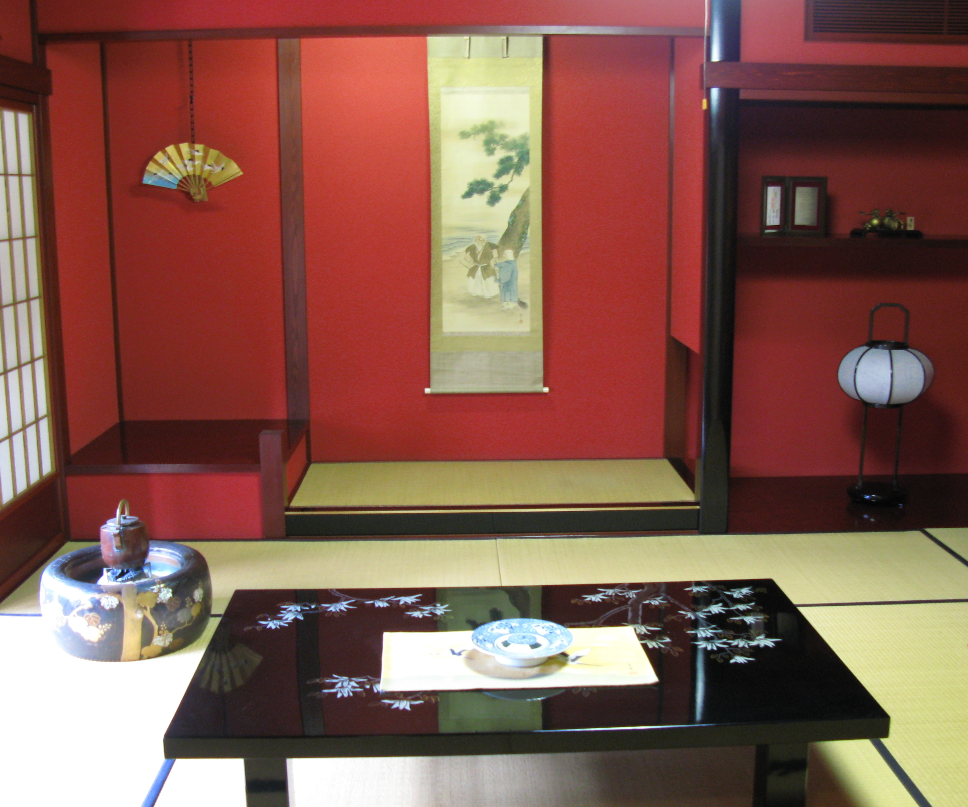 Kanazawa city Ishikawa-ken (Prefecture), Japan Ochaya Kanazawa %u8336%u5C4B%u3068%u306F The fan in the left is called sensu. The wallpaper kakejiku. The lamp on the right andon. The table is called zataku. The plate on the table haizara. On the left there are a hibachi with a tetsubin upon.